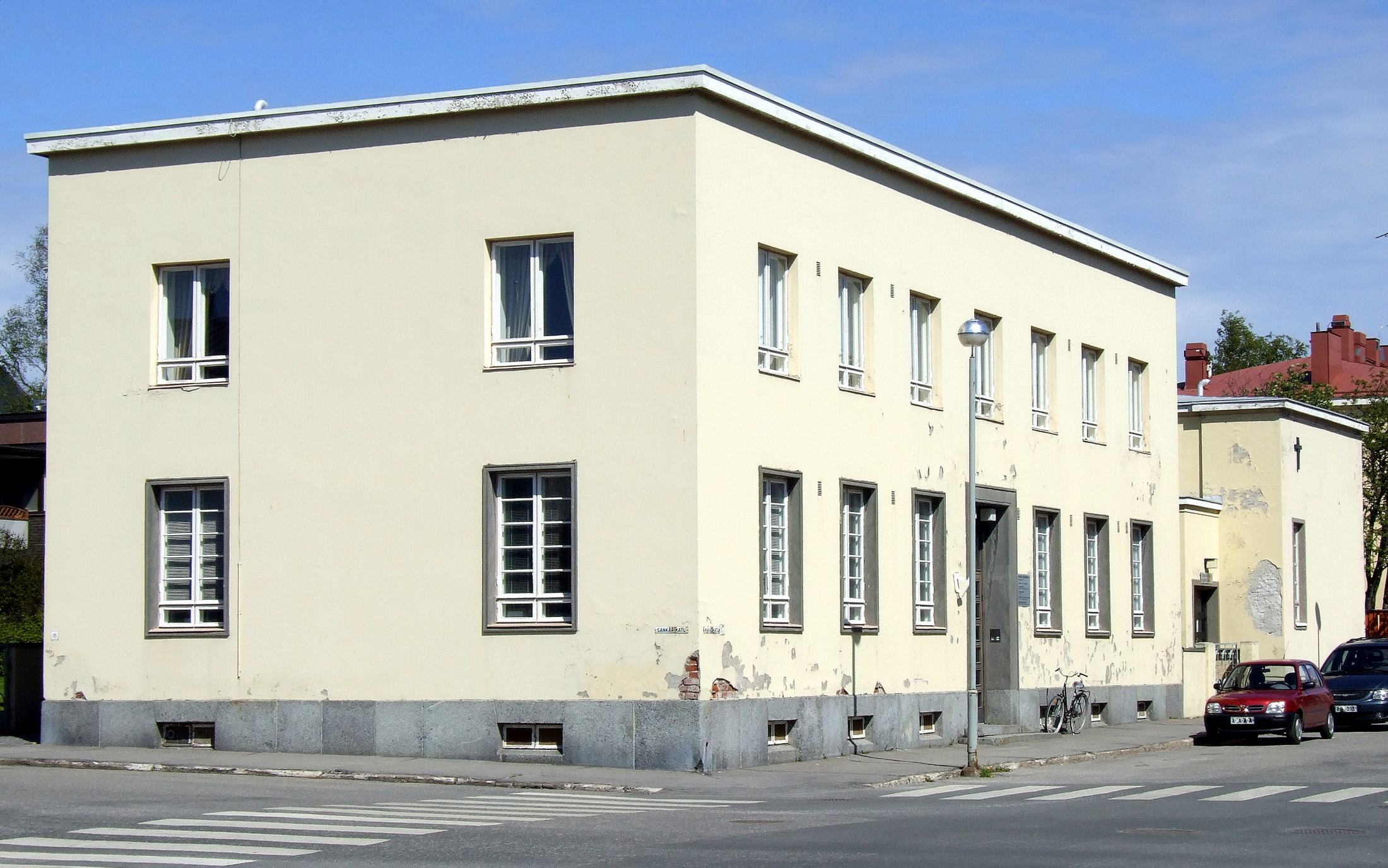 Rectory of Kemi. It was designed by architect Gustaf Strandberg and built in 1935